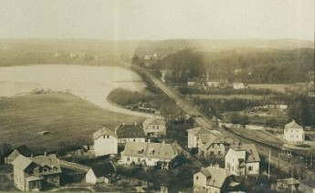 Houses at Lyngby Sø in Kongens Lyngby, Denmark